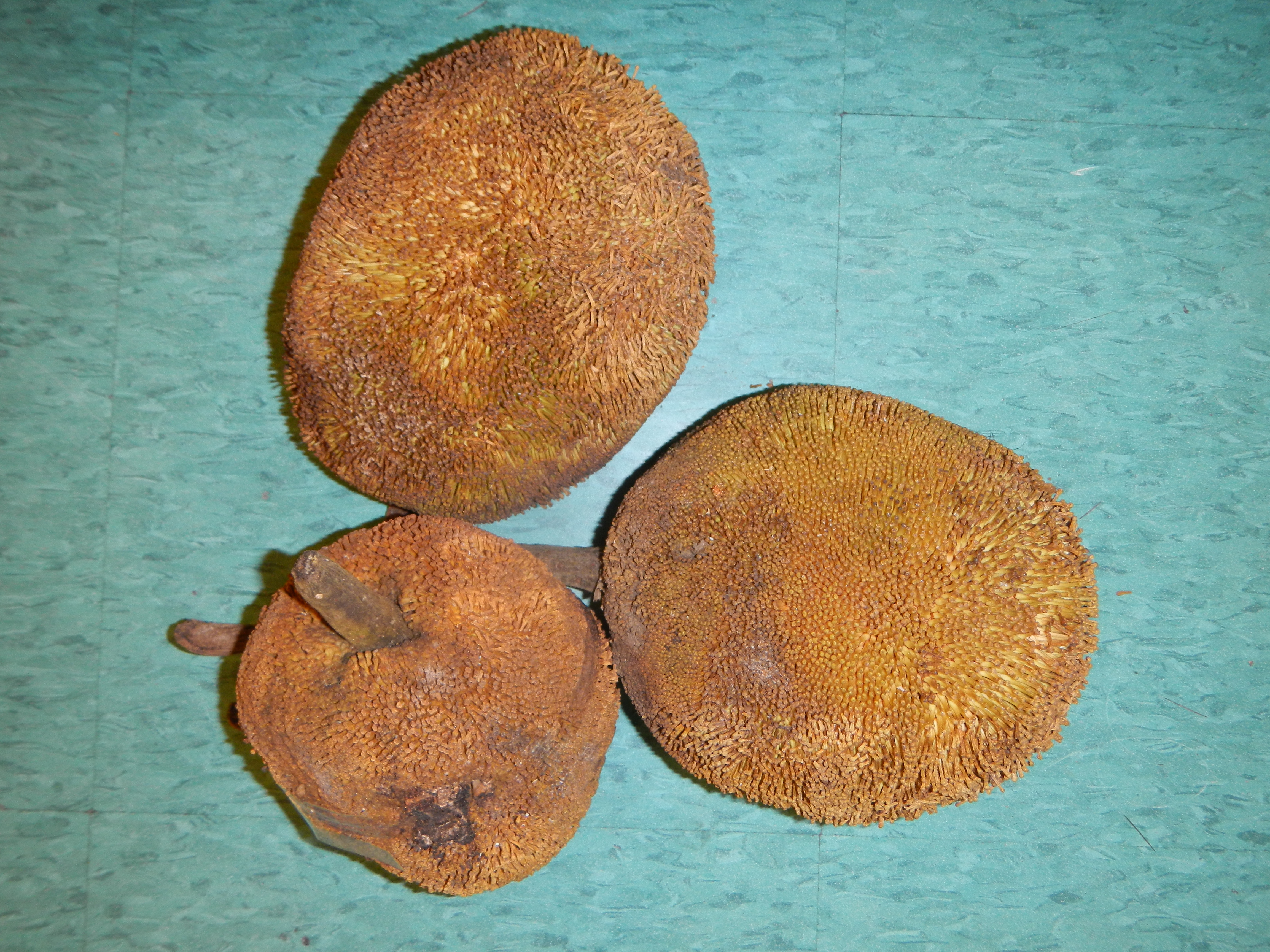 Marang[1]